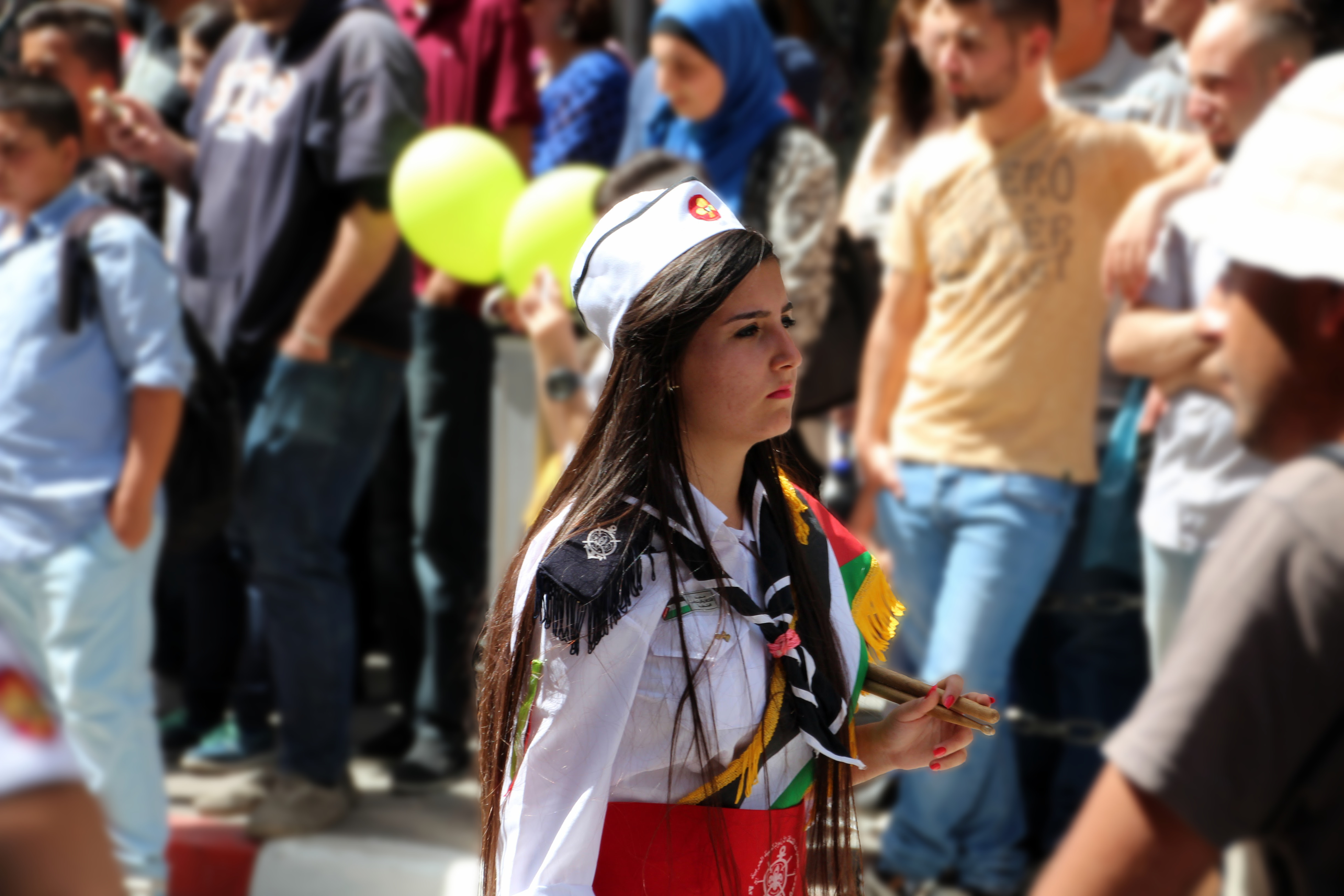 Drummer from the Arab Orthodox Scout Group of Gaza during the annual procession in Ramallah marking "Holy Saturday" or "Saturday of Light", the day preceding Easter.